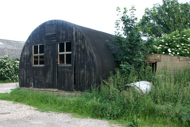 Romney Hut, Belgar Farm